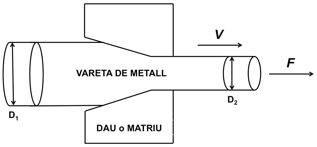 Wire drawing process